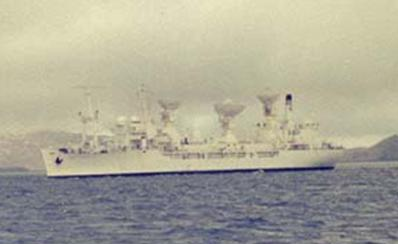 "I took this photo of the USNS General H. H. Arnold from the deck of the tug YTB-783 as she was approaching Naval Station Adak, Alaska. The photo was taken sometime between February of 1976 and August of 1977 as that was the duration of my assignment on the island. The Arnold came in and out of Adak regularly during that time. The ship only entered the harbor under heavy cloud cover (easy to find on Adak) or most often at night, took on fuel, and always left before daybreak. The captain appeared to be a Navy captain, but the crew appeared to be civilian, judging by their lack of uniforms, haircuts, beards, age, etc. --Brian M. Godfrey"